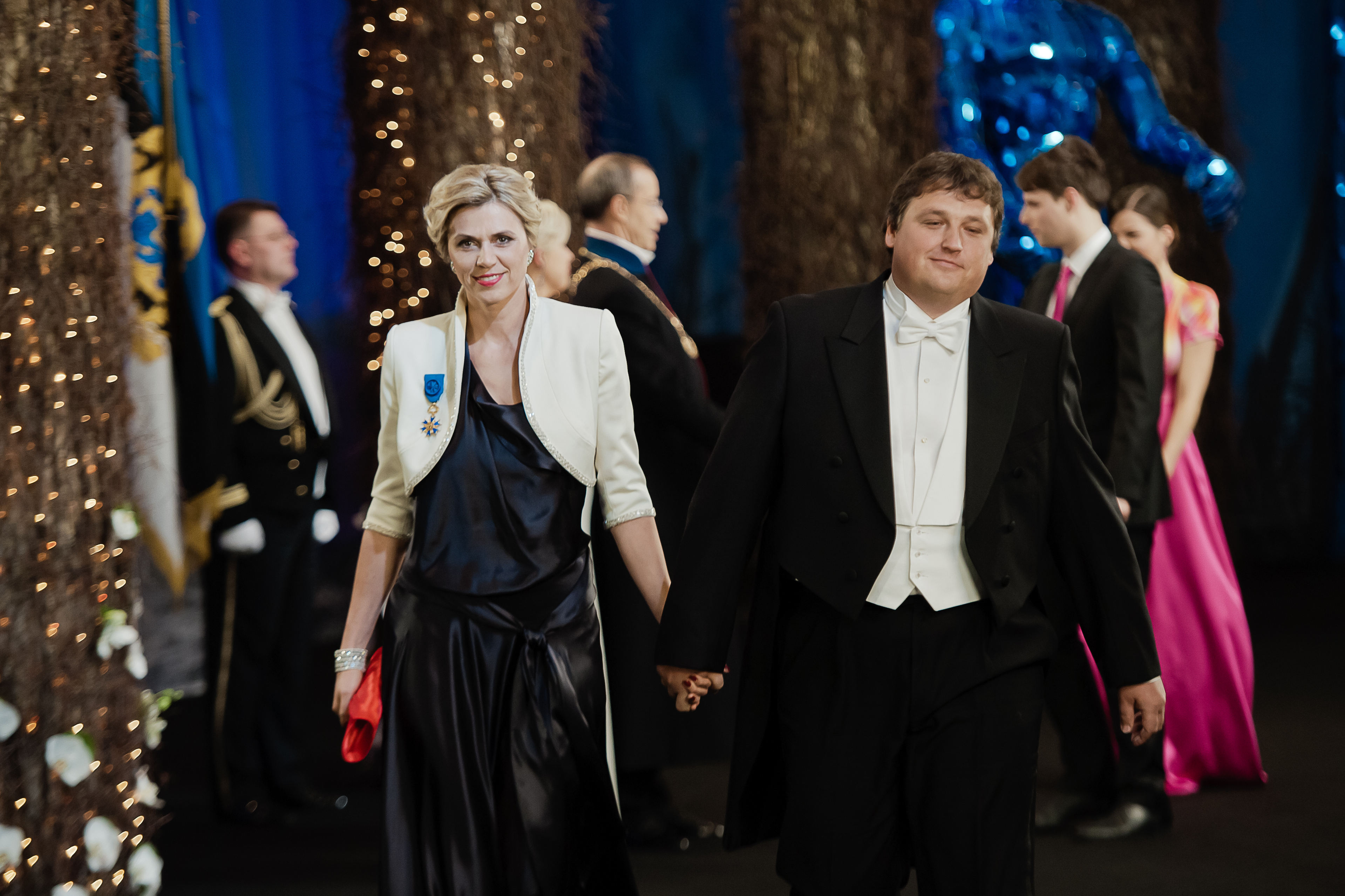 Urve Palo and Janek Palo